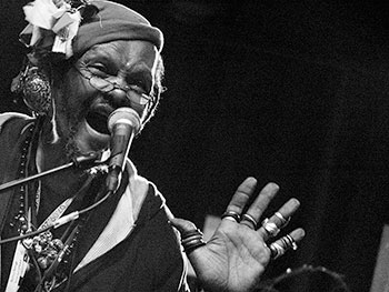 Lonnie Holley in Aarhus Denmark 2014